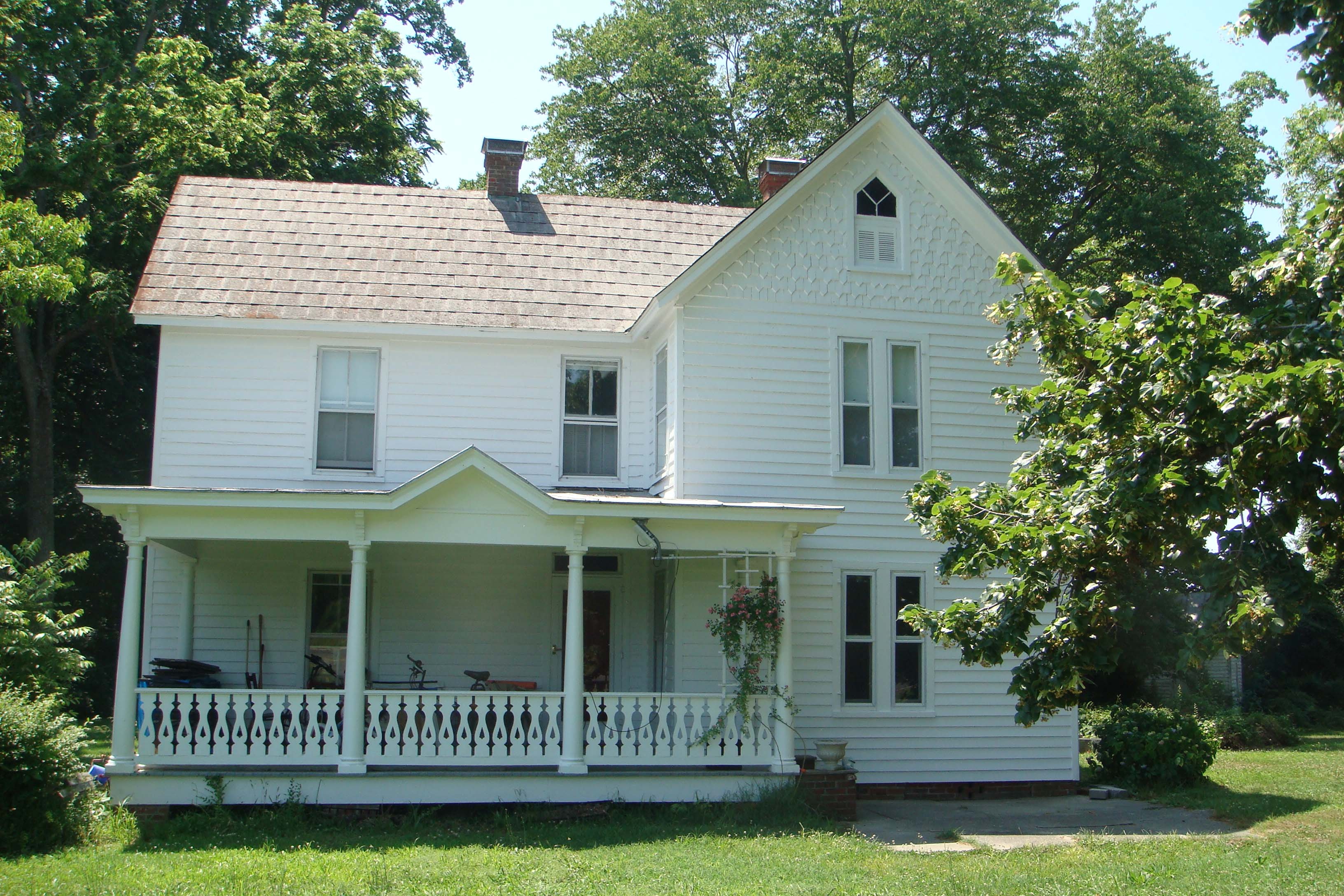 House in Ottoman, Virginia, birthplace of George H. Steuart (diplomat)